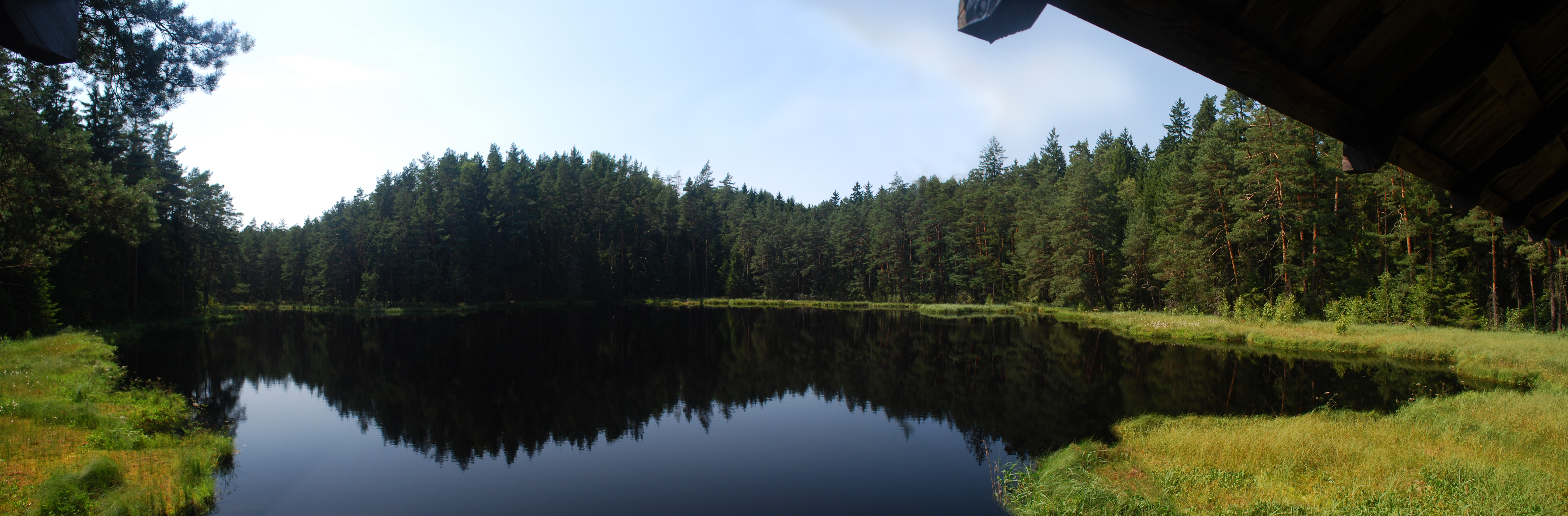 This photo from Podlaskie Voievodeship was taken during Polish Wikiexpedition 2009 set up by Wikimedia Polska Association. The making of this document was supported by Wikimedia Polska. Ścieżka edukacyjna "Suchary" w Wigierskim Parku Narodowym - suchar nr. 4 - panorama.